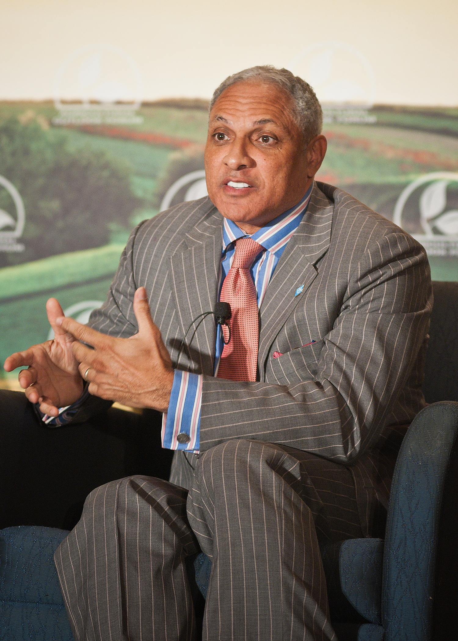 At the 2012 Agricultural Outlook Forum, “Moving Agriculture Forward” in Arlington, VA, held on Thursday, February 23, 2012, 7 former Secretaries of Agriculture sat on the plenary panel “Visions of the Future” hosted by current Agriculture Secretary Tom Vilsack. Congressman Mike Espy (MS) speaks out during the panel discussions. USDA photo by Robert Nichols.